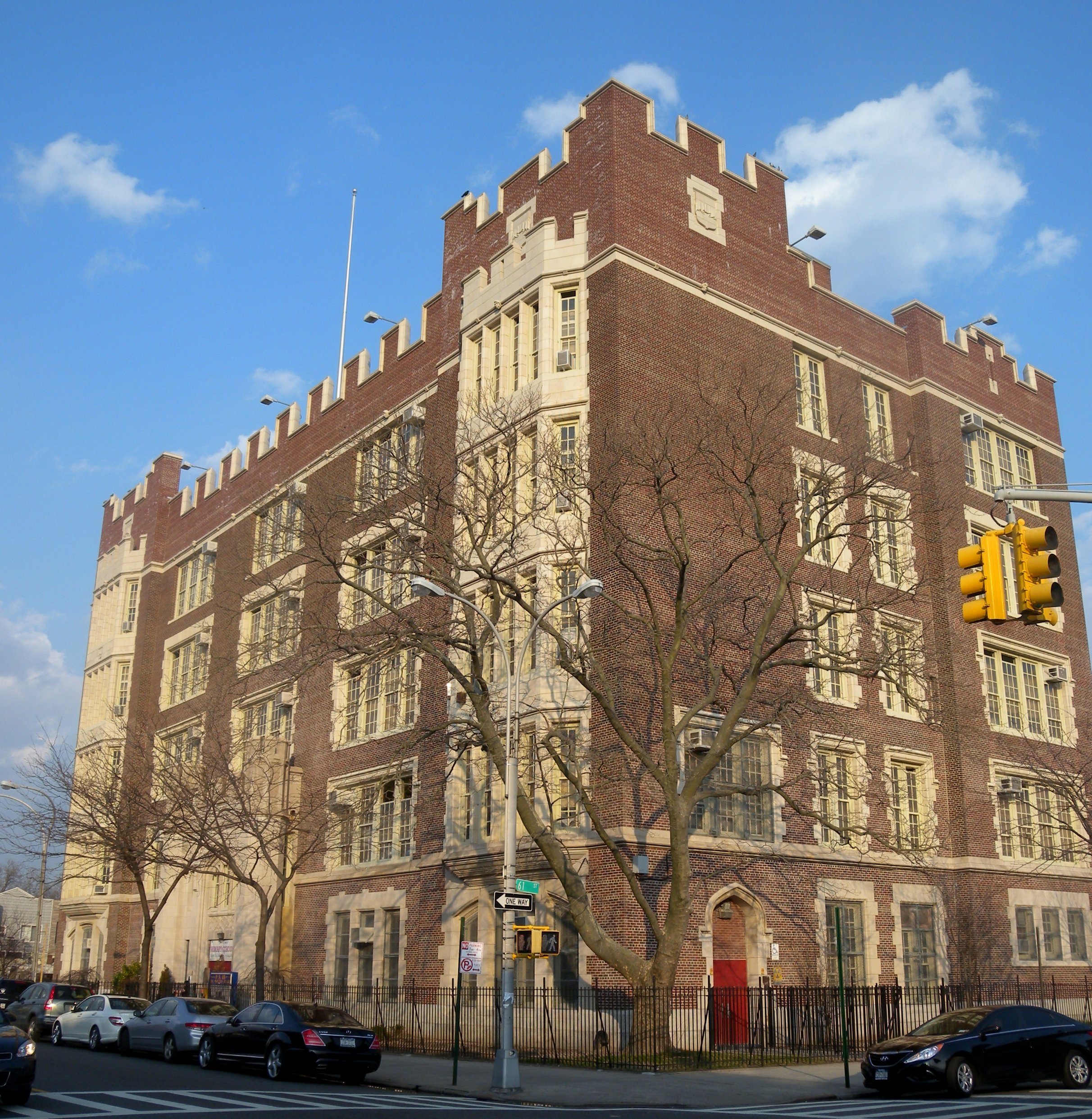 Looking east across 18th Avenue at PS 48, late on a sunny afternoon.